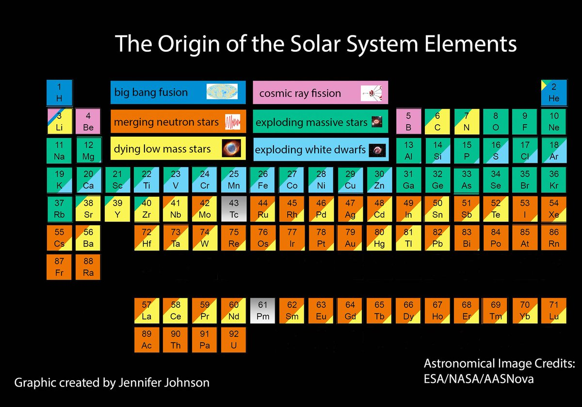 Elements like hydrogen and helium originated in the Big Bang. Heavier elements up to iron are forged in the cores of stars such as supernovae. The elements heavier than iron are synthesized in the aftermath of neutron star collisions.